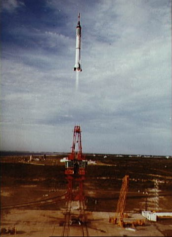 Wide-angle view of the launch of Mercury-Redstone 4 (Liberty Bell 7) from Cape Canaveral on July 21, 1961.